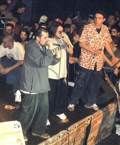 The italian rappers Primo Brown and Grandi Numeri from Cor Veleno and Piotta live